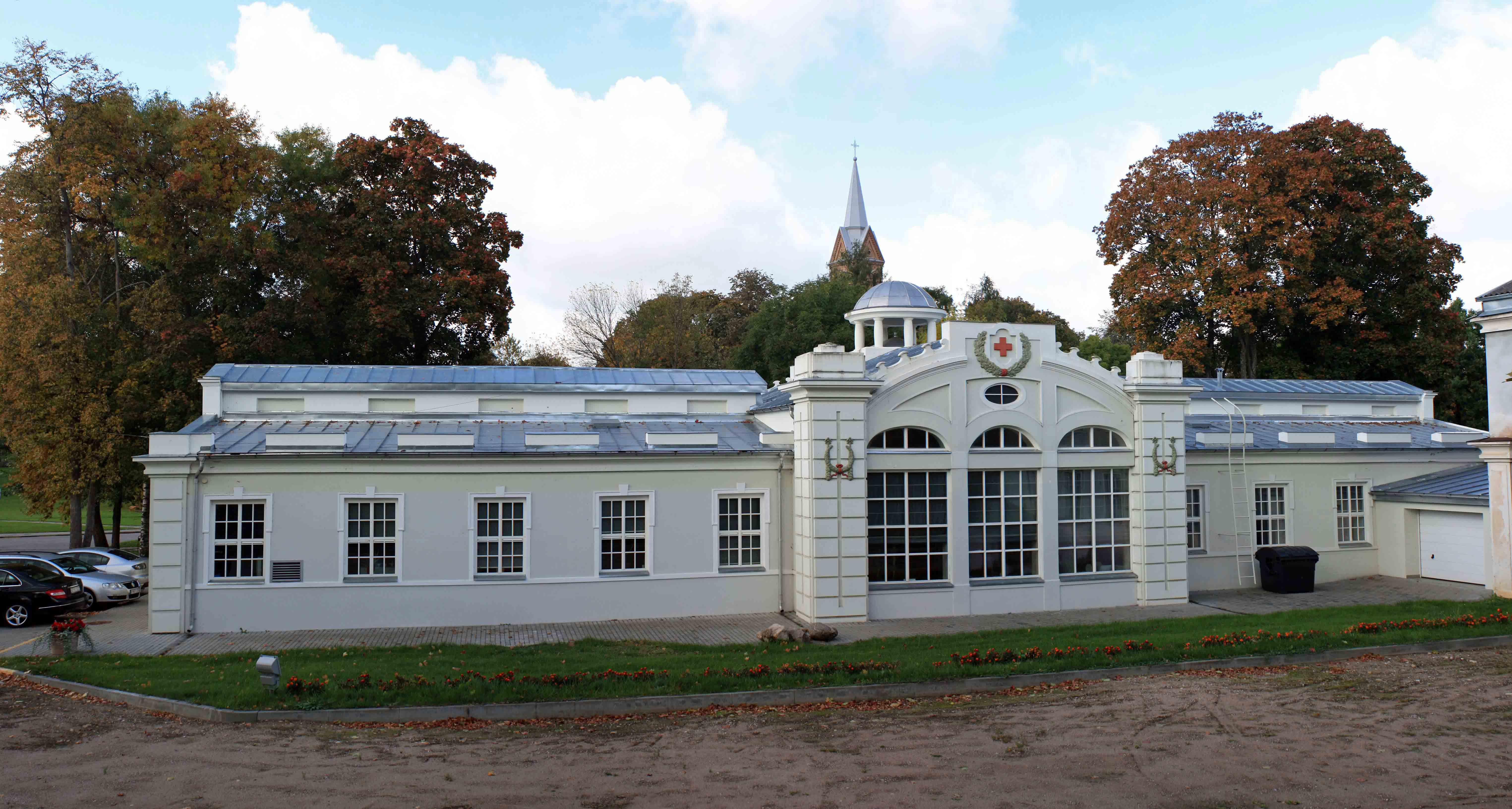 The Birštonas mud treatment centre decorated with the emblem of the Red Cross was built in 1927.